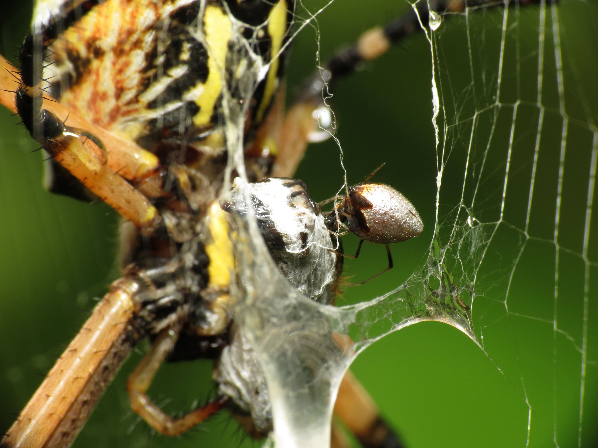 Argyrodes elevatus feeding on the prey of the yellow garden spider, Argiope aurantia. Heritage Island, Anacostia River, Washington, DC, USA. 25 August 2012. It was a rainy day and not many things were flying between showers, so I thought I'd do a little video of this Argiope sucking on its food. Initially, I didn't even see the little kleptoparasite lurking in the web. When I finally saw it, I knew immediately what it was because I had seen it in a David Attenborough movie. It was great fun to finally see one in real life. From now on, I'll have to stop and closely inspect every one of these webs.